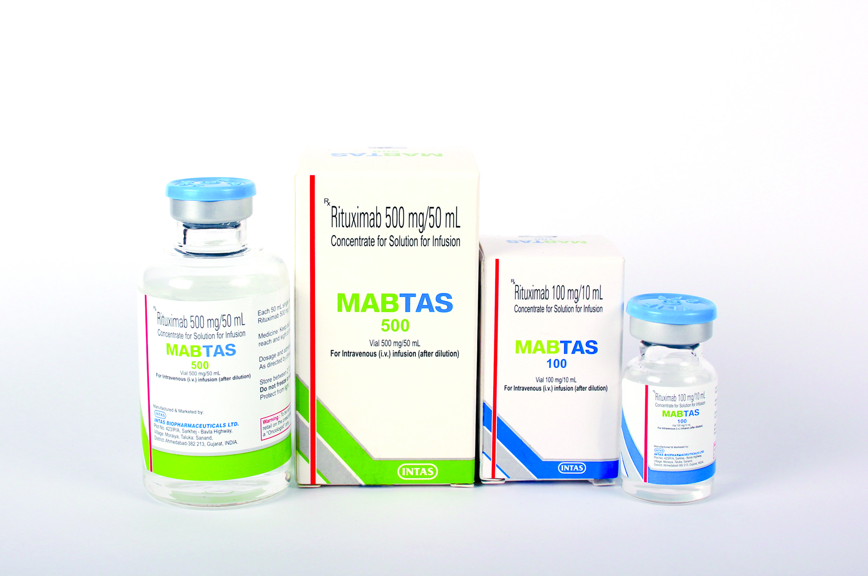 MabTas is Rituximab biosimilar of Intas